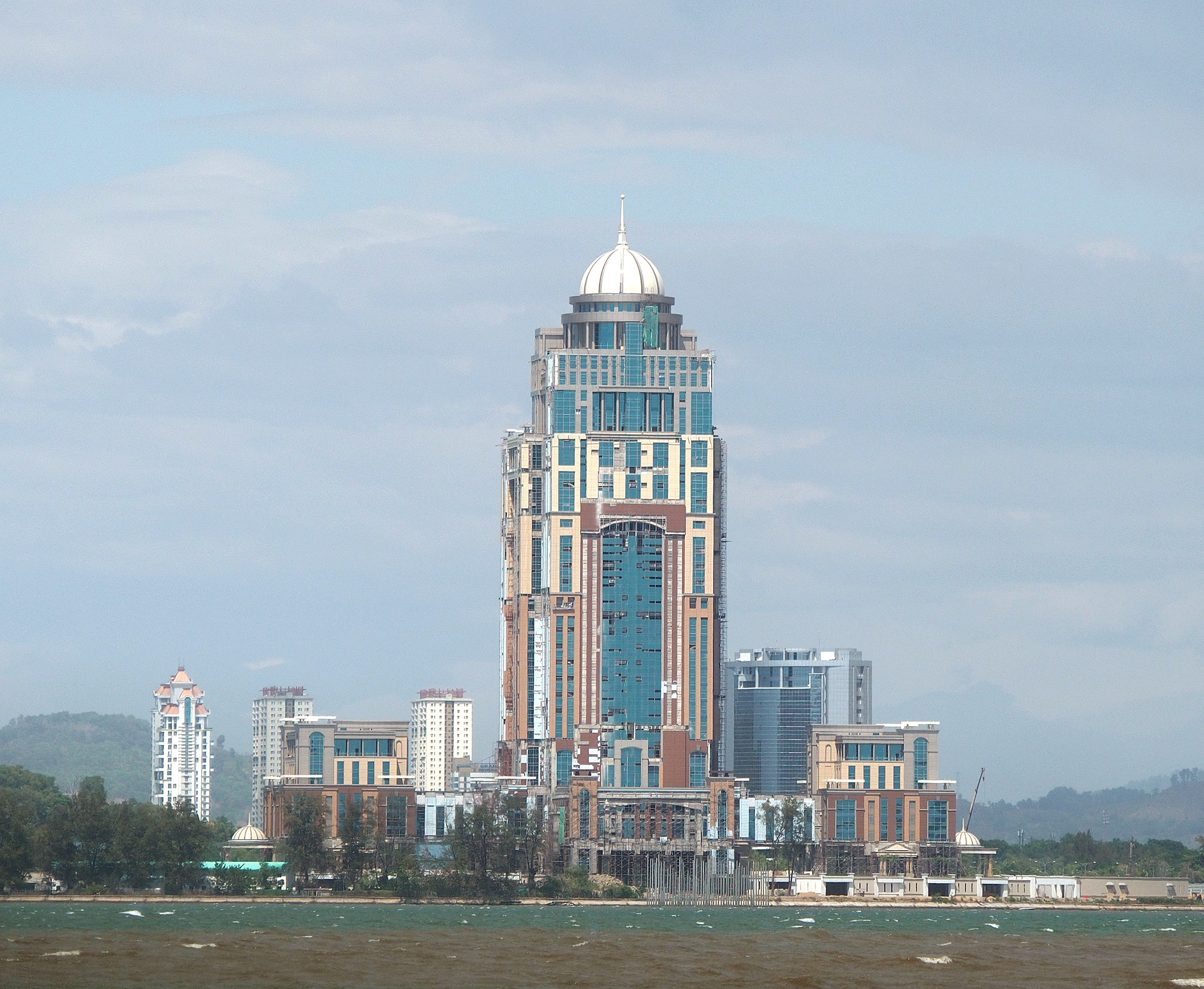 Construction of the Sabah State Administrative Centre as of 20th of February 2016.